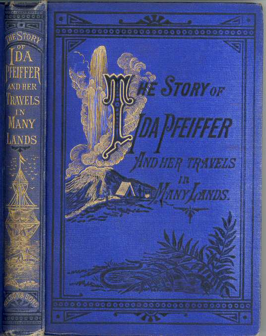 Cover of "The Story of Ida Pfeiffer and her Travels in many Lands" Thomas Nelson and Sons, London, Edinburgh and New York.